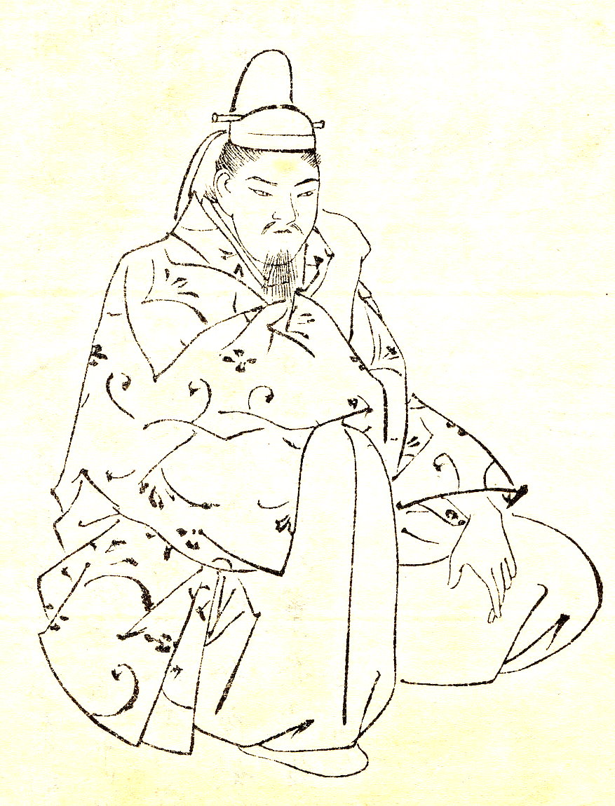 Ōe no Takachika(大江挙周) was a japanese court noble in Heian period.